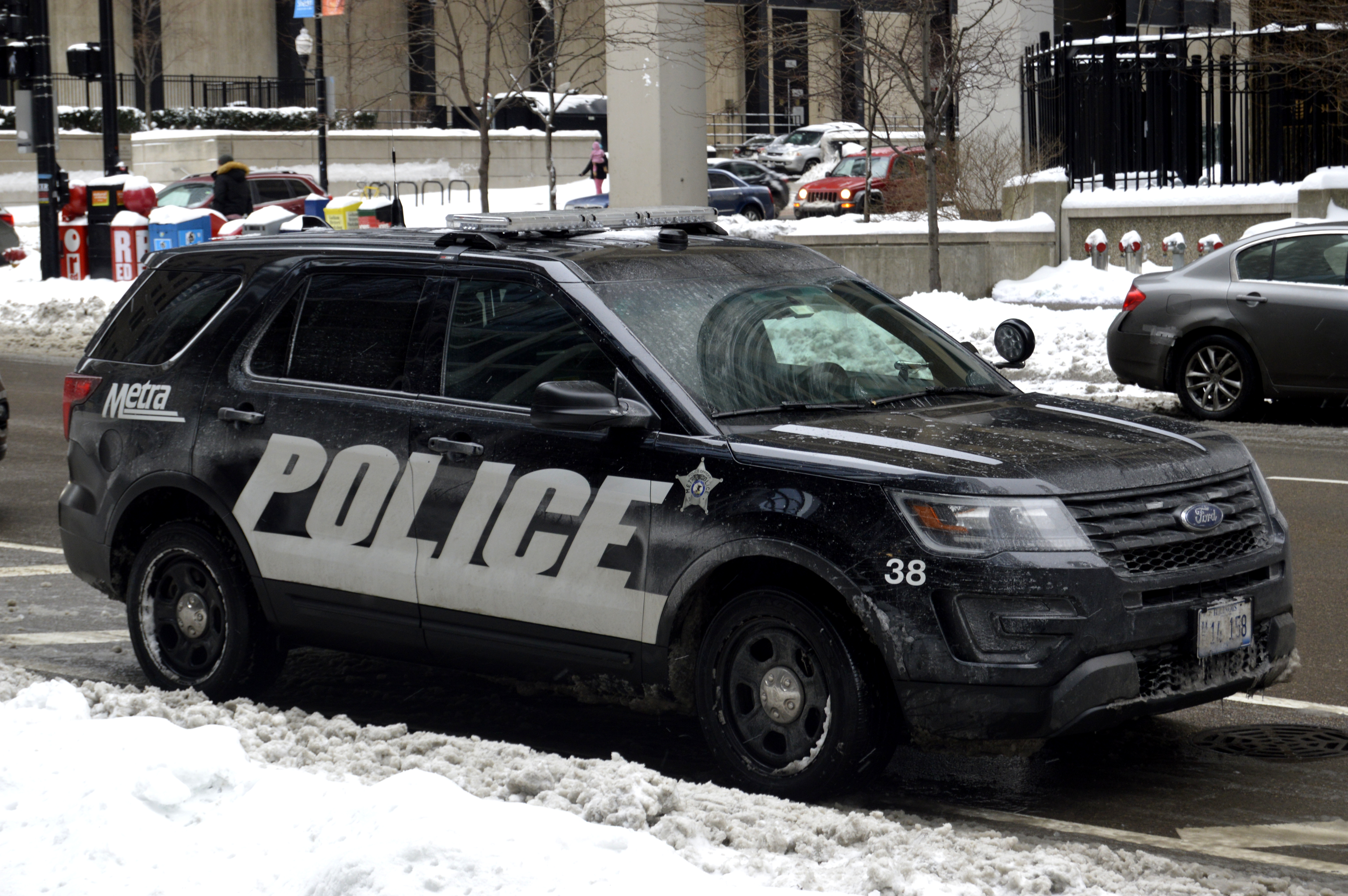 Metra Rail Police Ford Explorer Police Interceptor